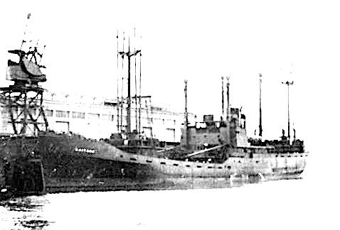 Kaitawa (ship) The ship was built in 1949, weighing 2, 485 tons.